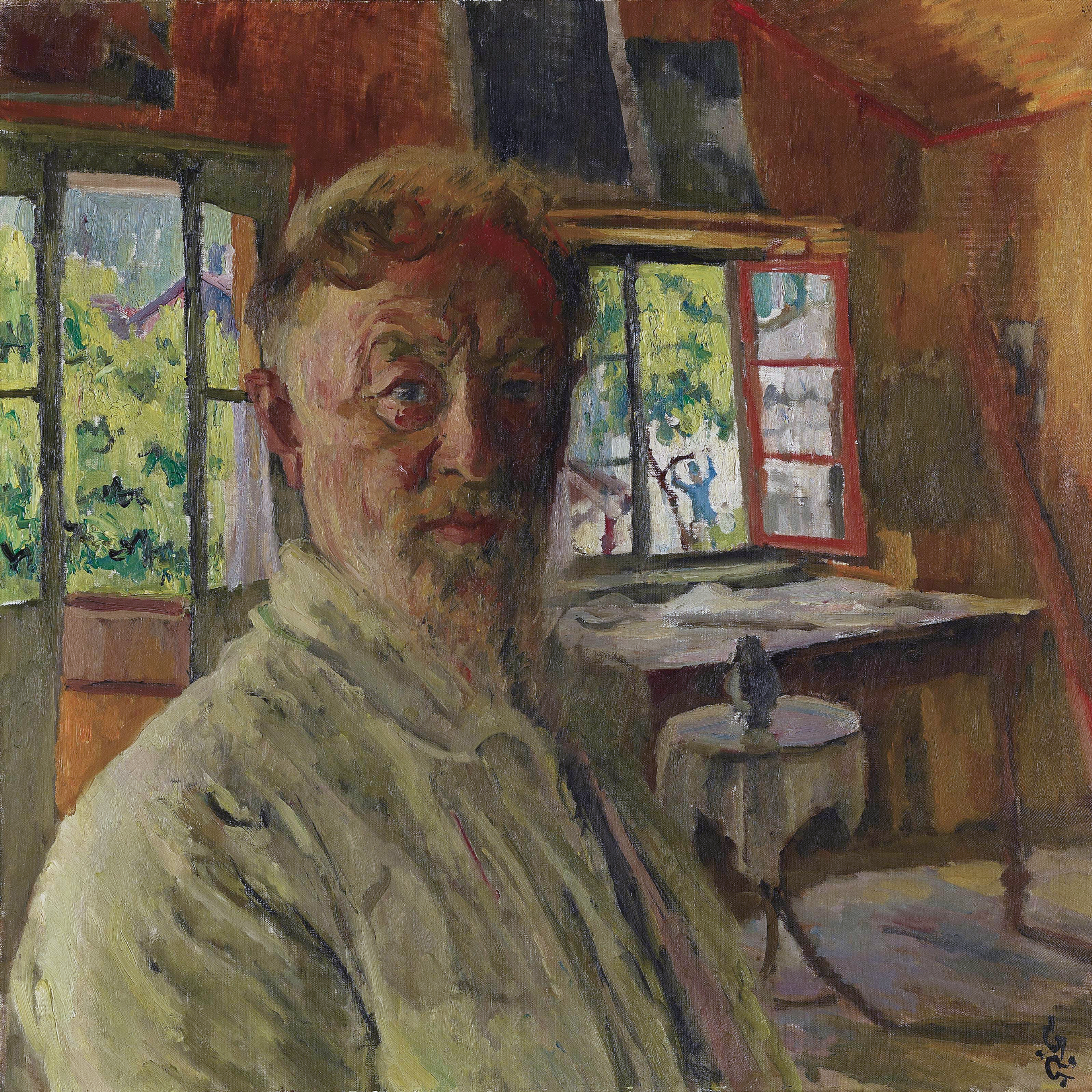 Giovanni Giacometti (1868-1933) - Self portrait oil on canvas 65 x 65 cm signed recto l.r.: GG signed verso: Giovni Giacometti Stampa 1931 this is his last self portrait of circa 40